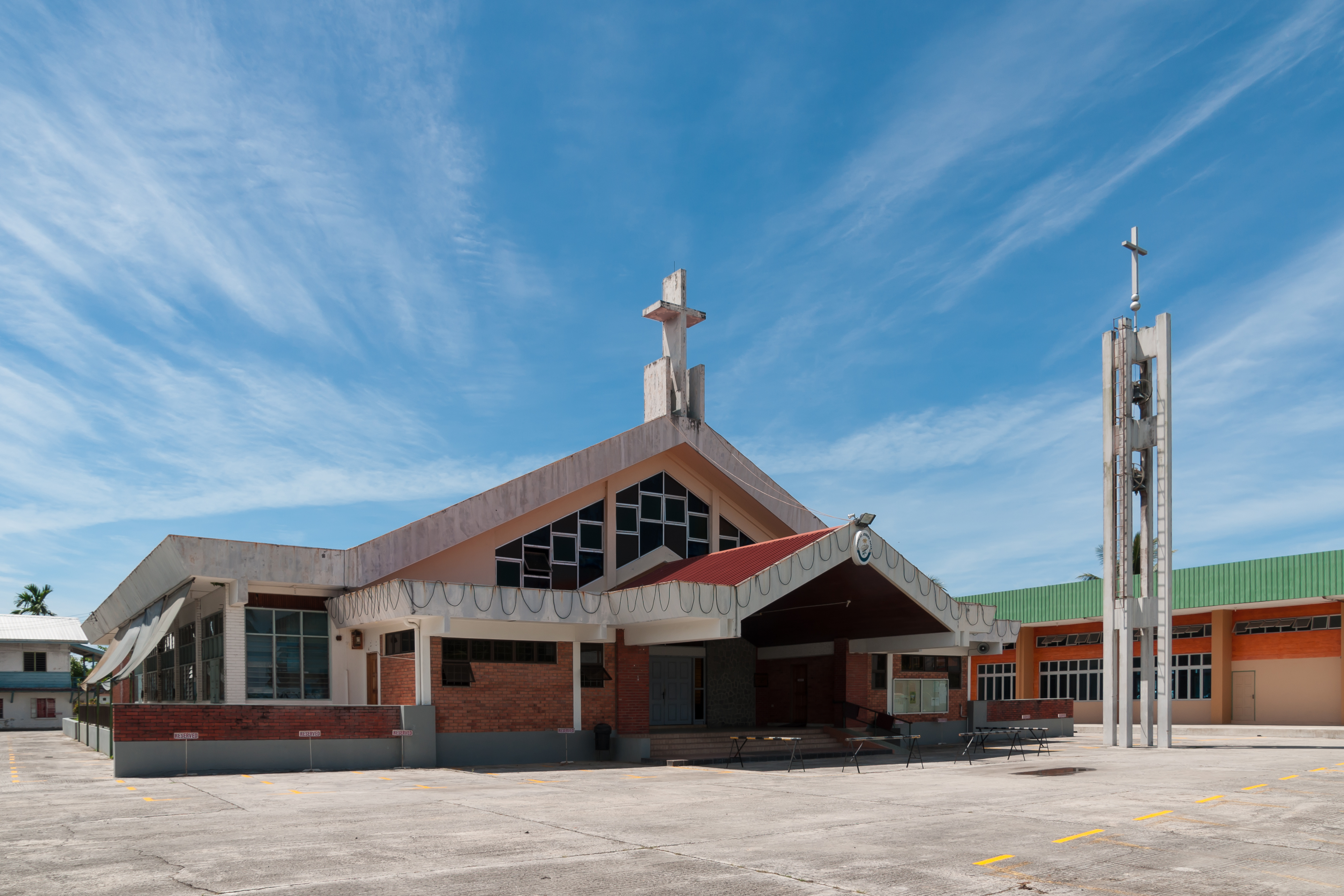 Papar (Sabah), Catholic Parish Church St. Joseph